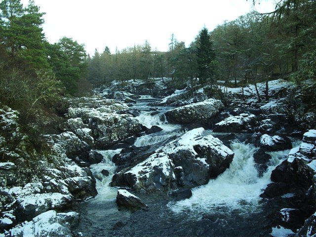 Achness Water Falls on the River Cassley. Nice spot for a wee bit of peace and quiet.